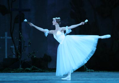 Ballerina Natalia Kolosova as Myrtha in Giselle.